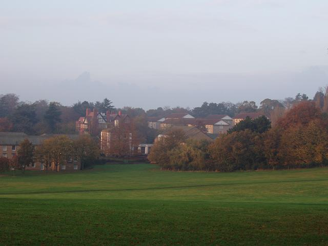 The Downs, University Park Campus. Category:Images of the University of Nottingham